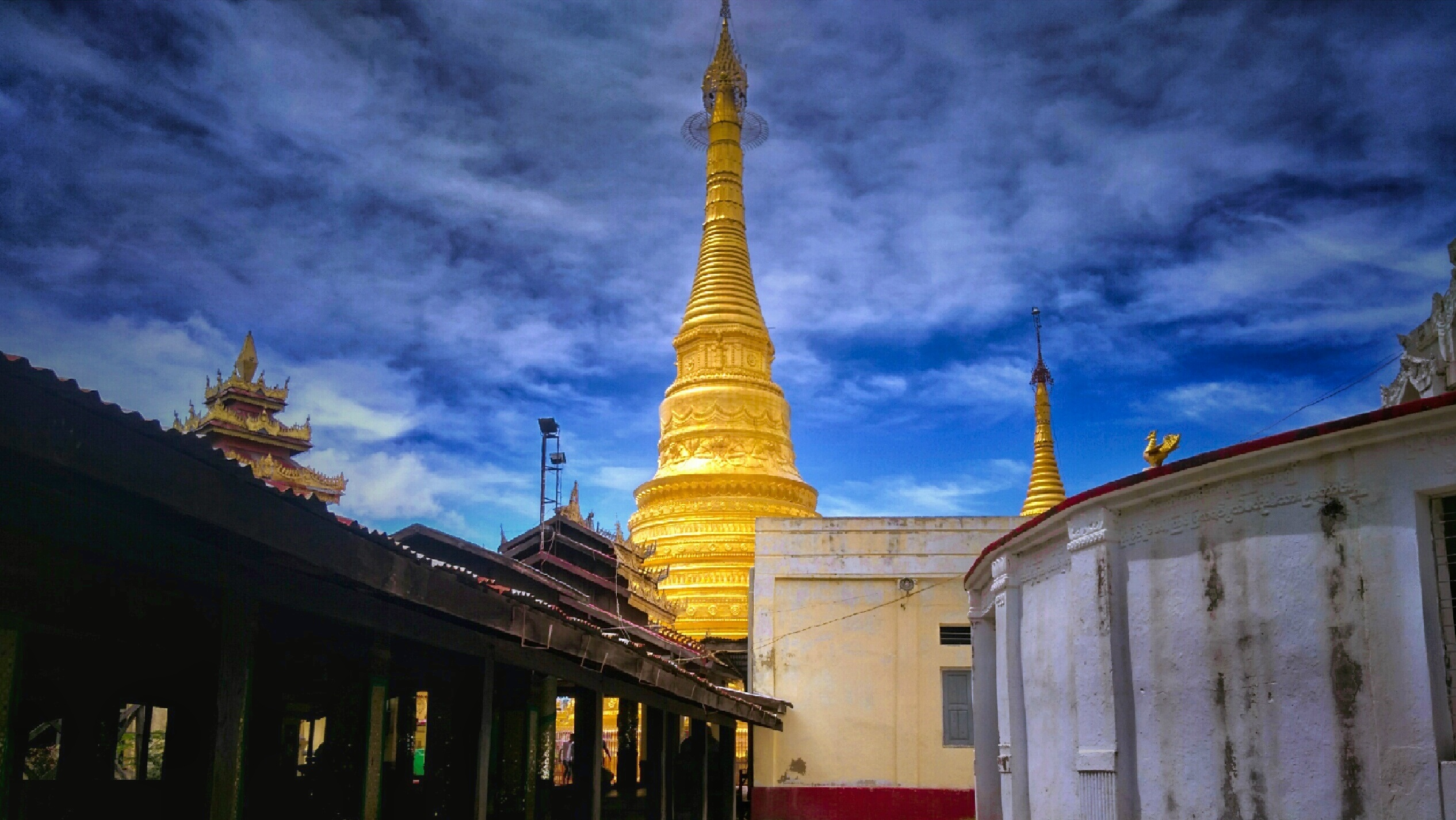 Shwe Inn Taung is a pagoda which is situated at north part of the town,taungdwingyi.